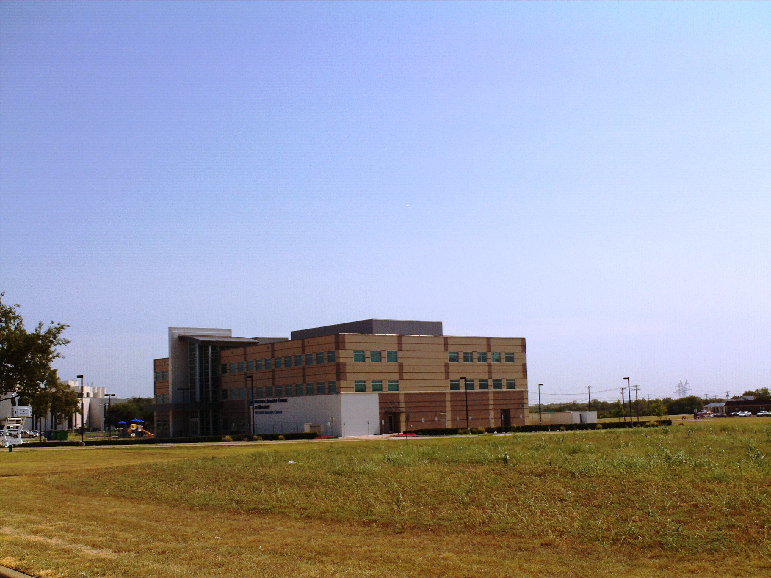 Burleson Surgery Center at Huguley building at the Huguley Memorial Medical Center complex.